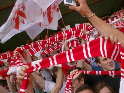 A picture from fans of KV Kortrijk